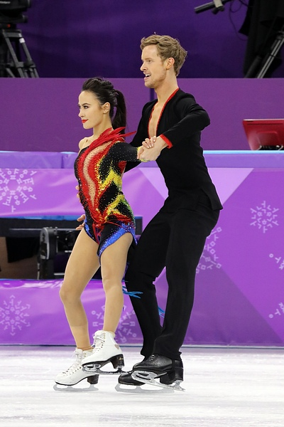 Madison Chock and Evan Bates at the 2018 Winter Olympic Games in PyeongChang